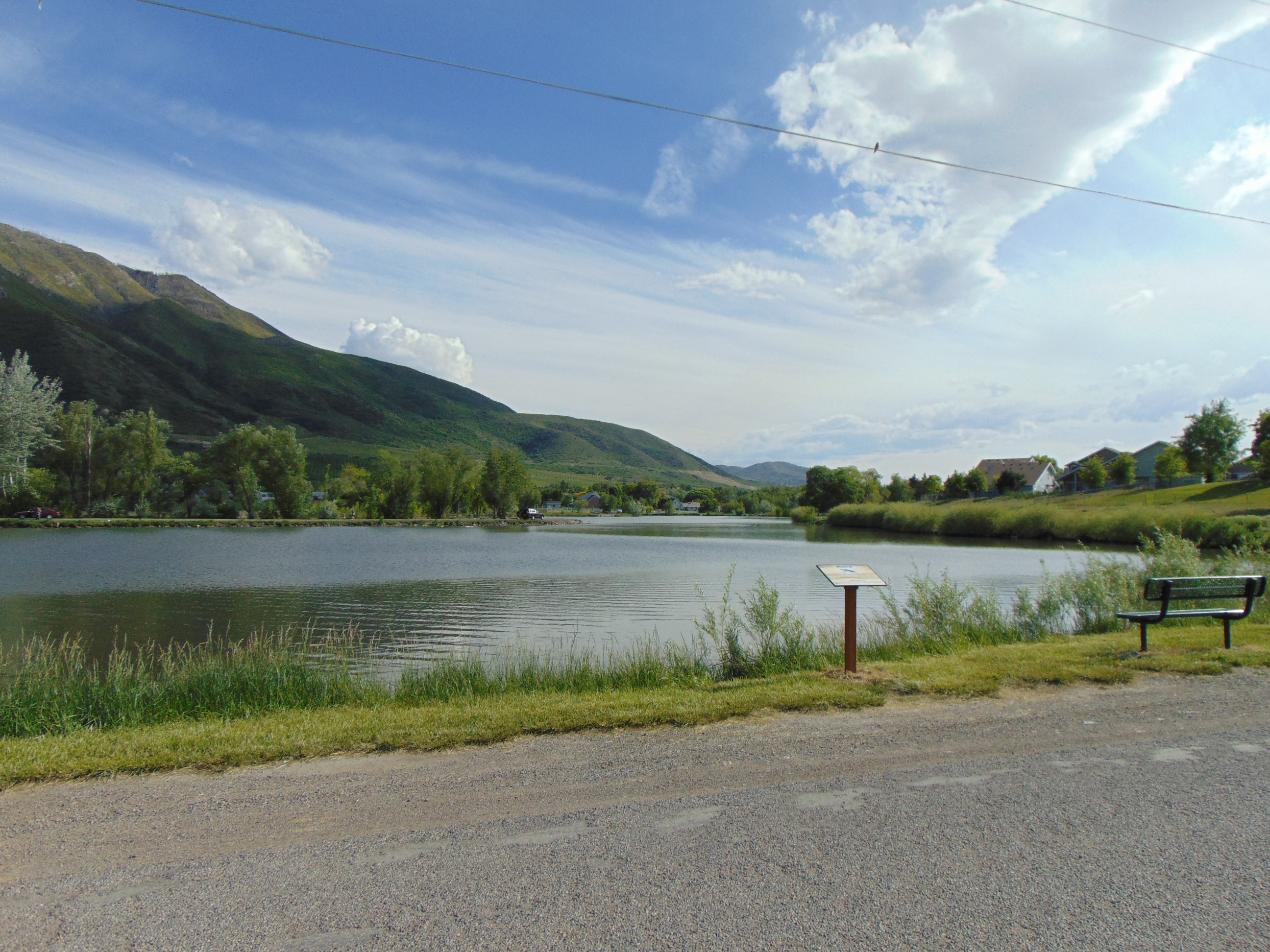 Looking west across Spring Lake in Spring Lake, Utah, with the the edge of Dry Mountain in the background, May 2016